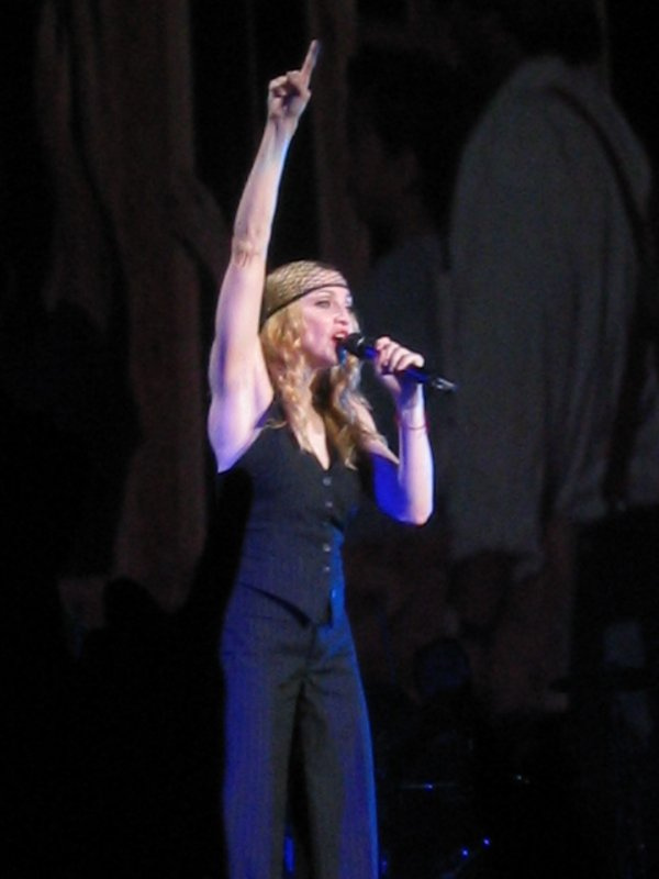 Madonna Concert